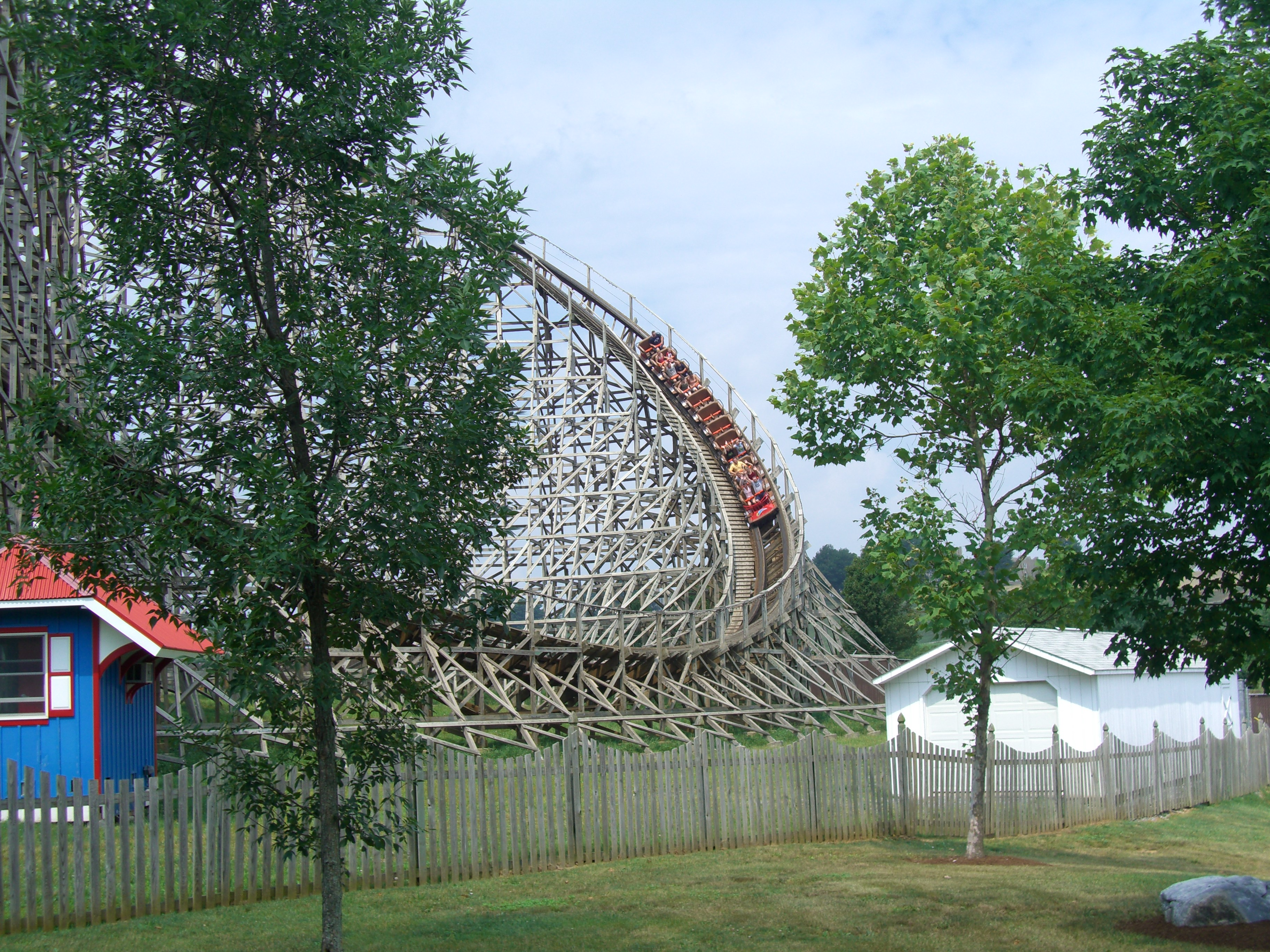 Wildcat's first drop at Hershey Park.